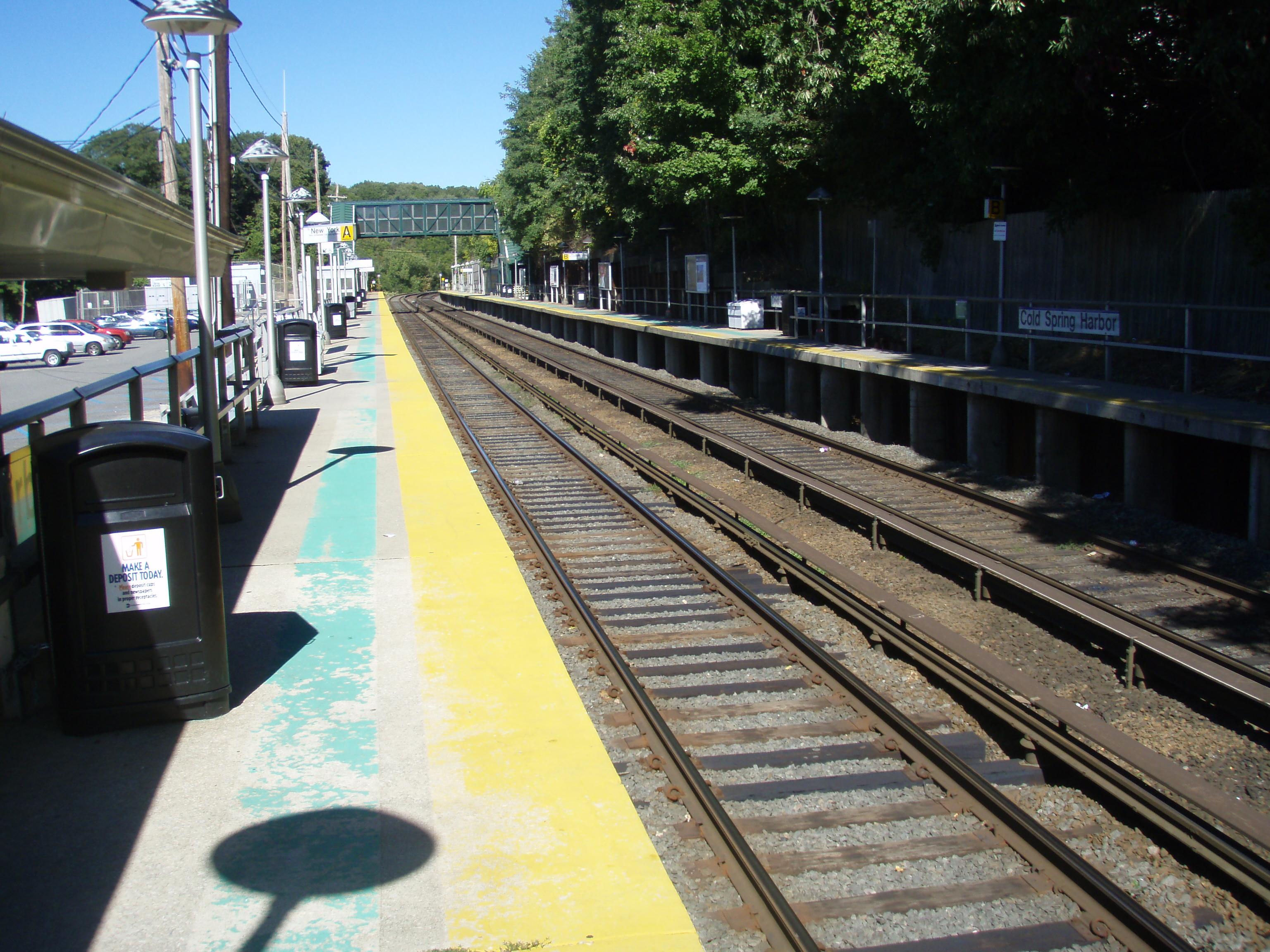 Picture of Cold Spring Harbor station in Cold Spring Harbor, Long Island, New York.